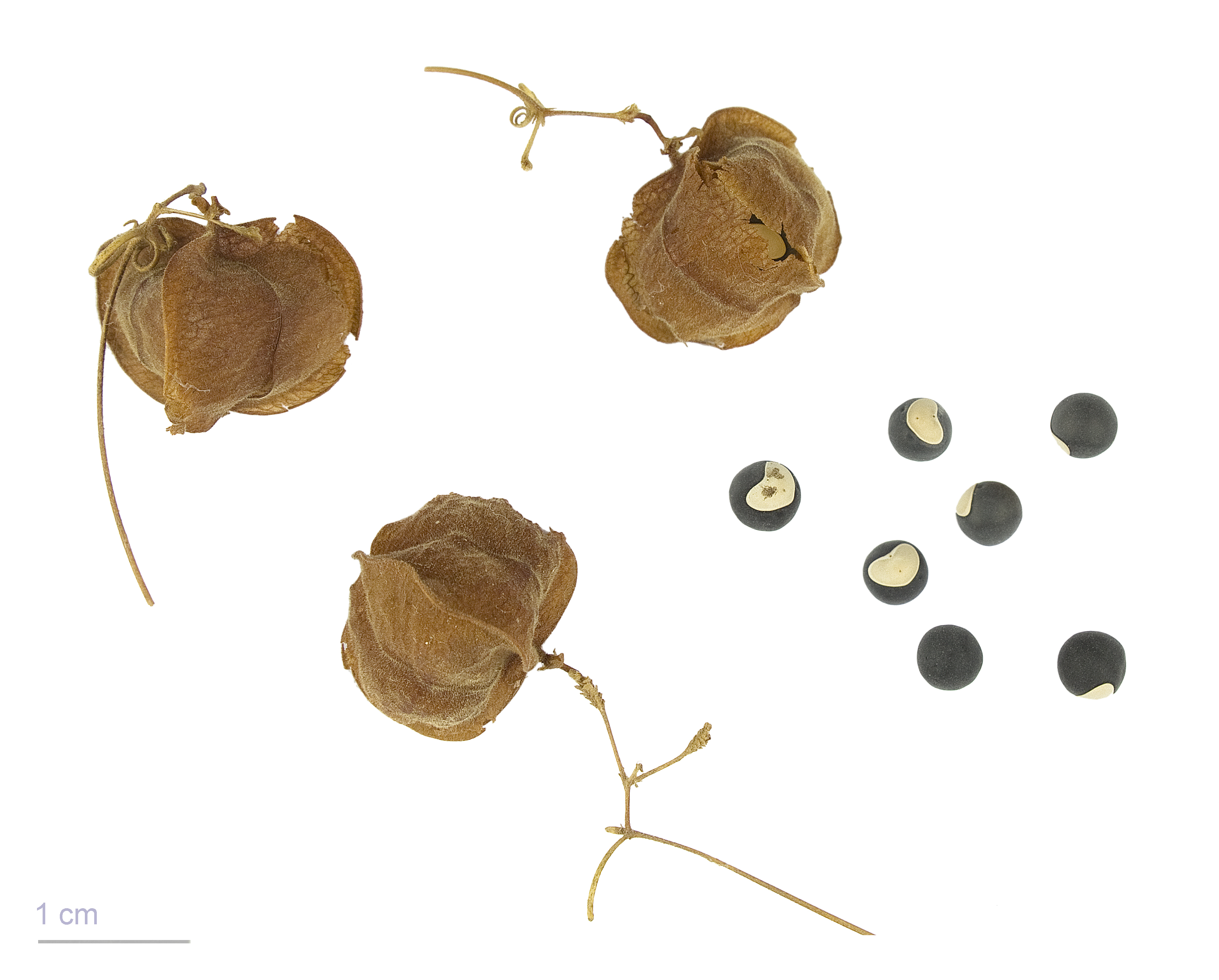 Balloon plant, fruits and seeds